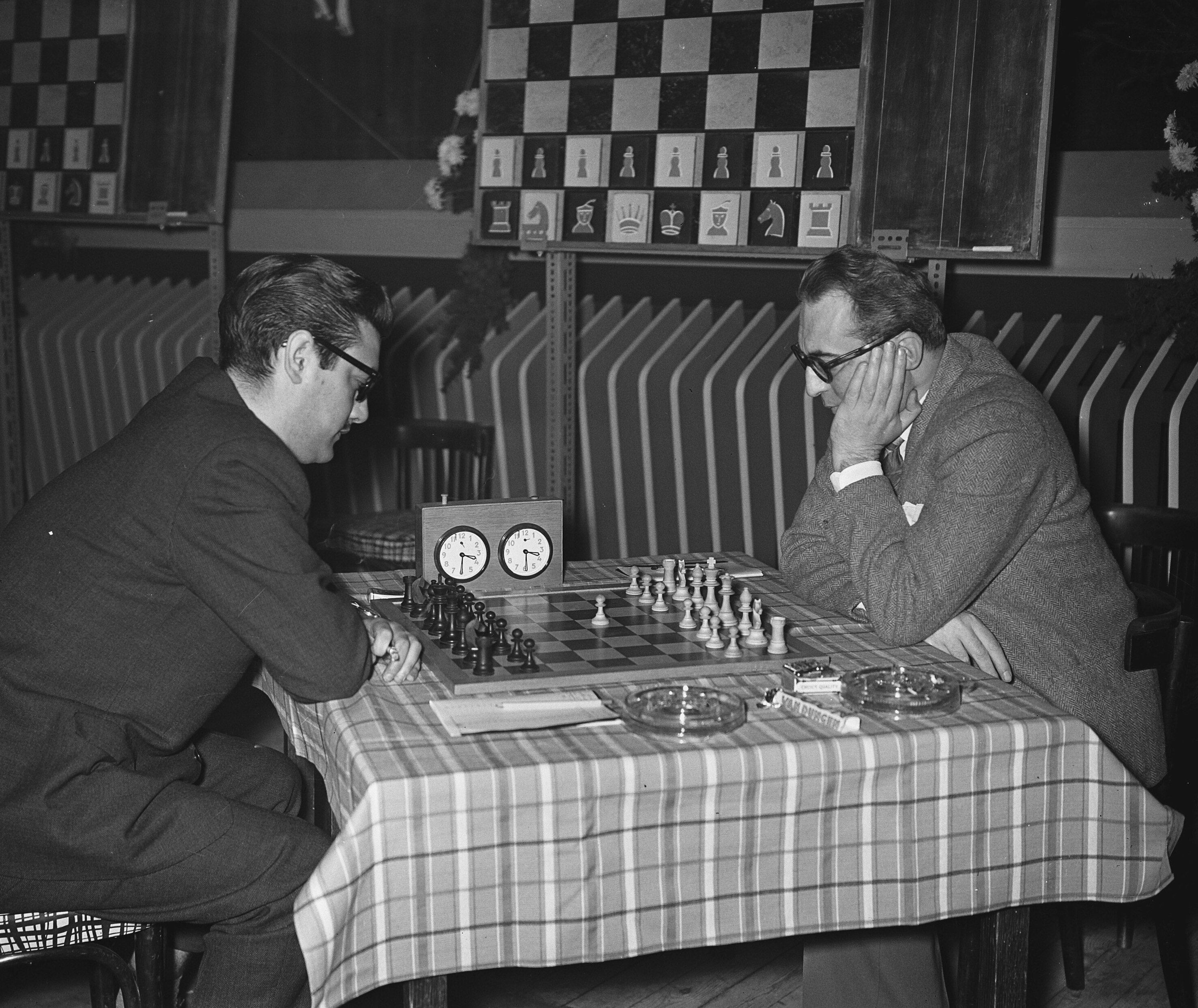 18th Hoogovens Chess Tournament, 1956. Probably 1st round, Román Torán Albero (black) against Herman Pilnik (white)